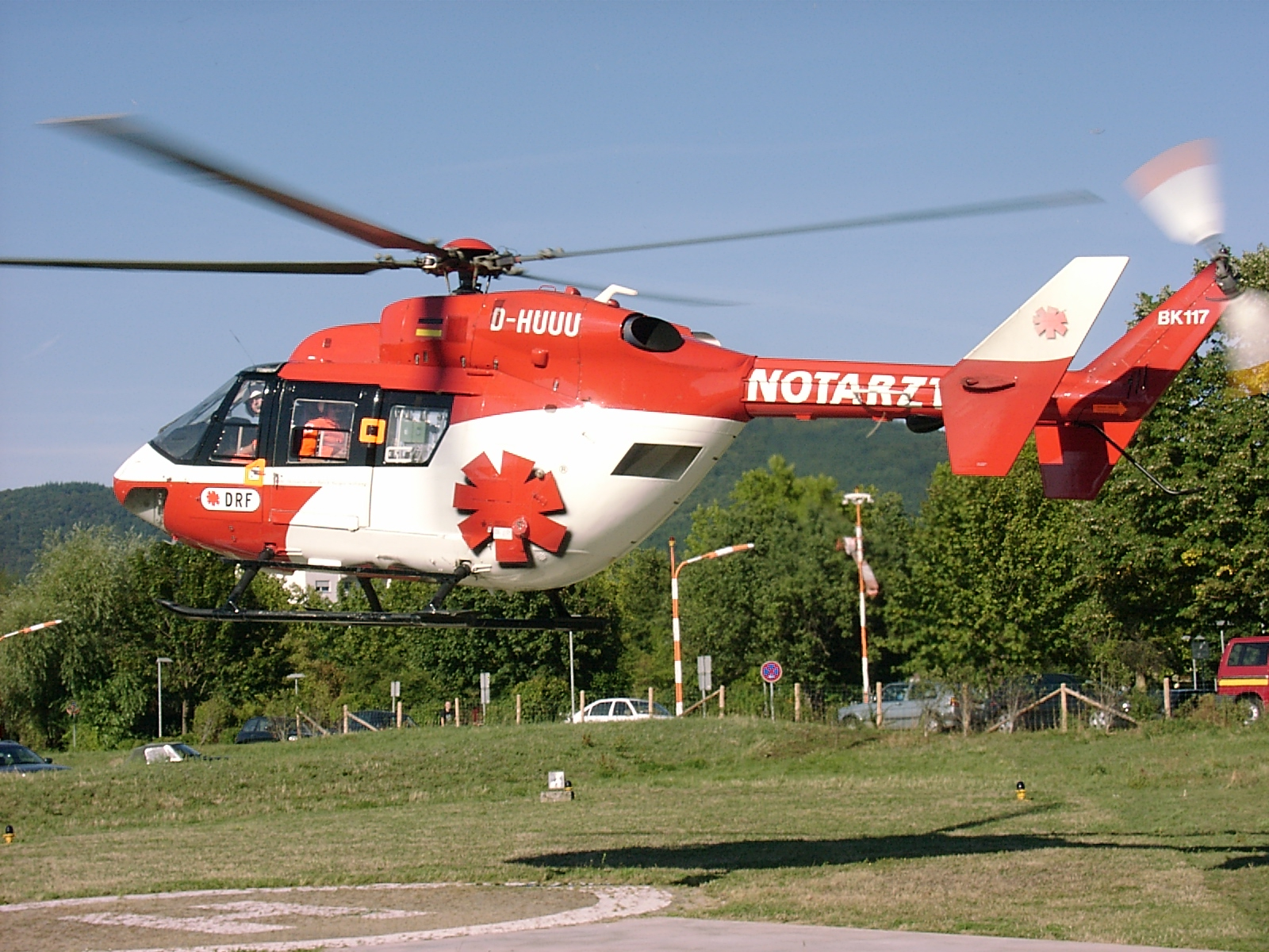 Starting emergency care helicopter BK-117, Heidelberg, Germany